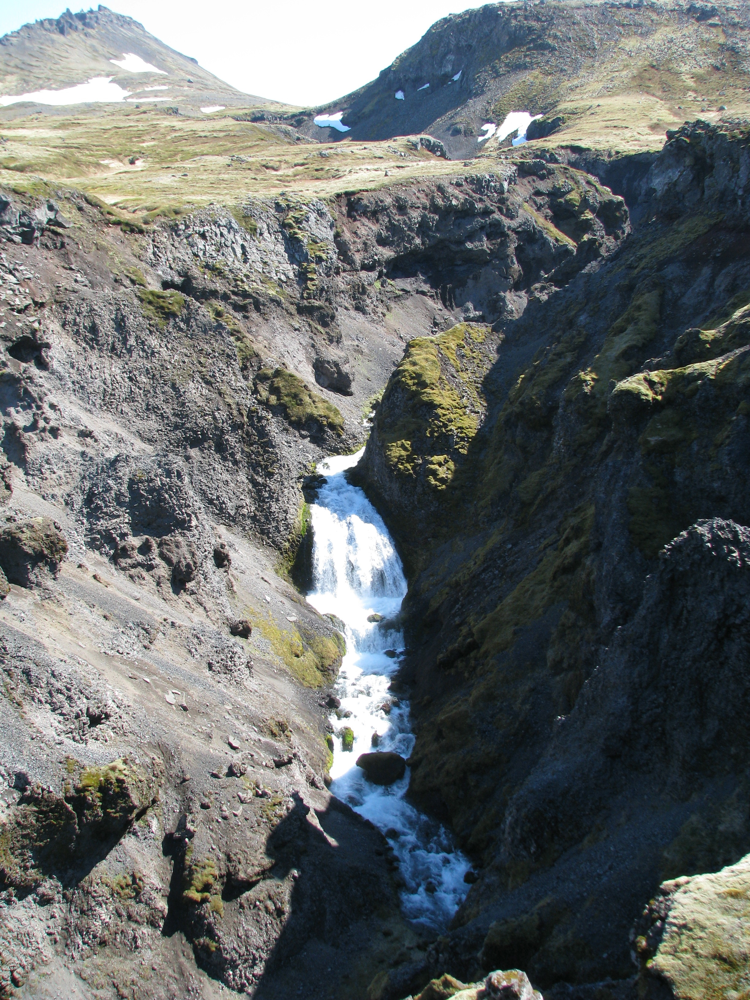 The Snekkjufoss, a waterfall in west Iceland.